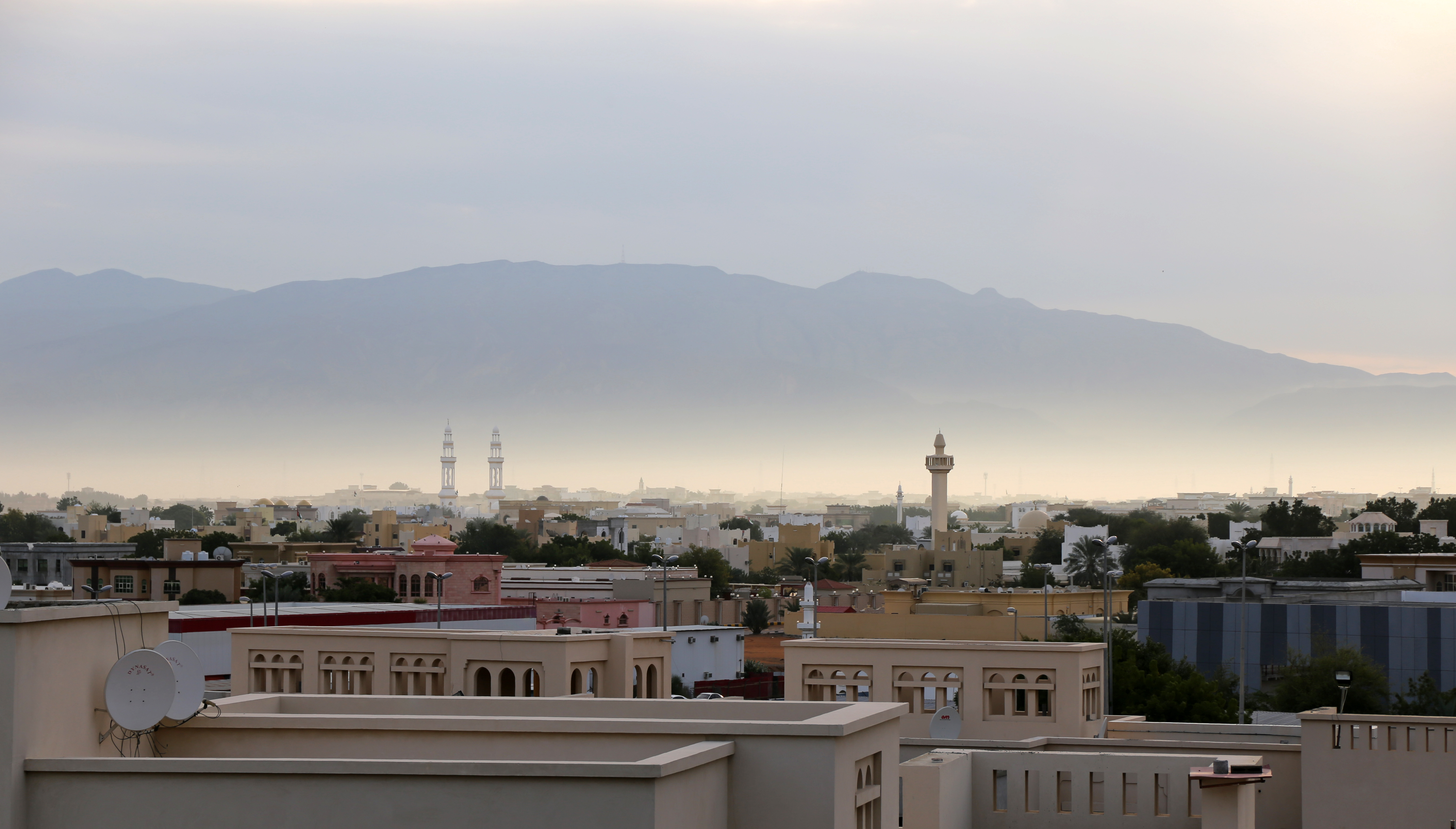 View of Ras al-Khaimah